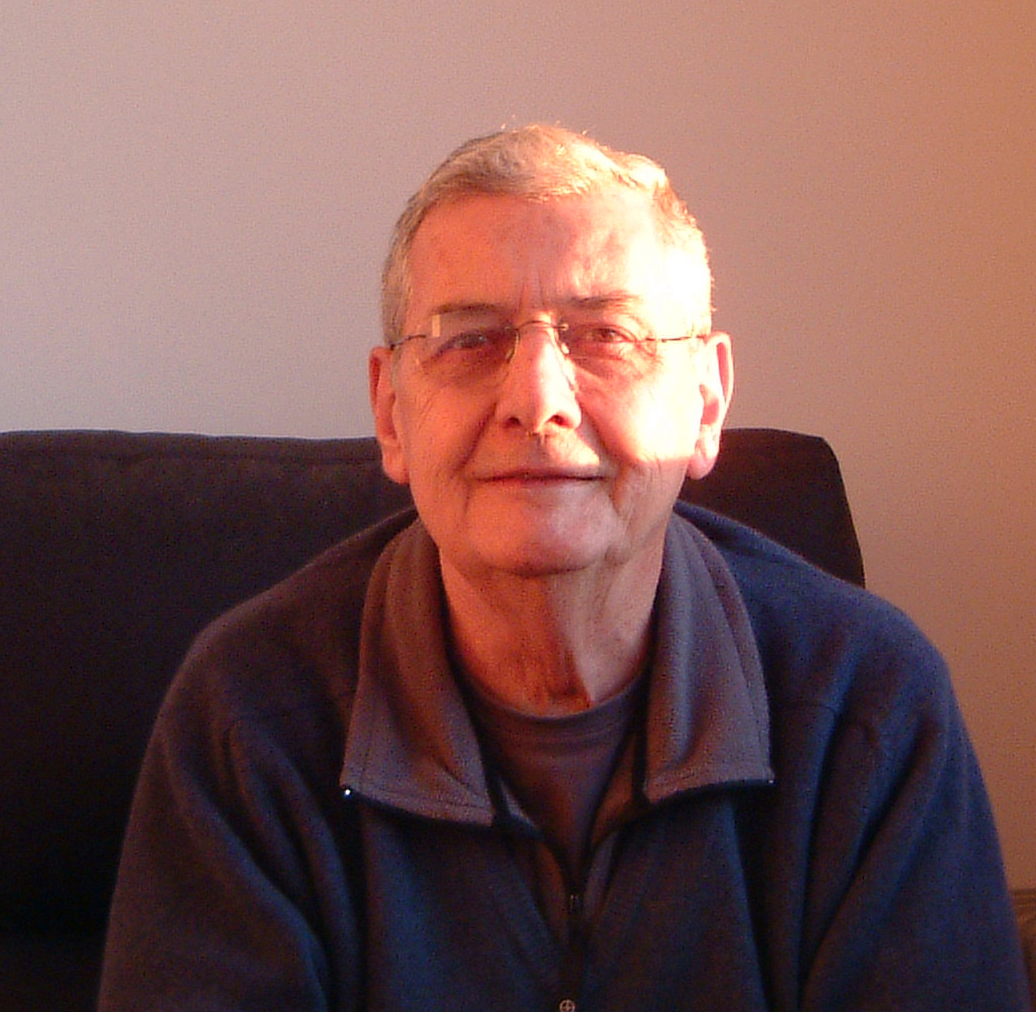 portrait of Carlos Cirne Lima, 2008